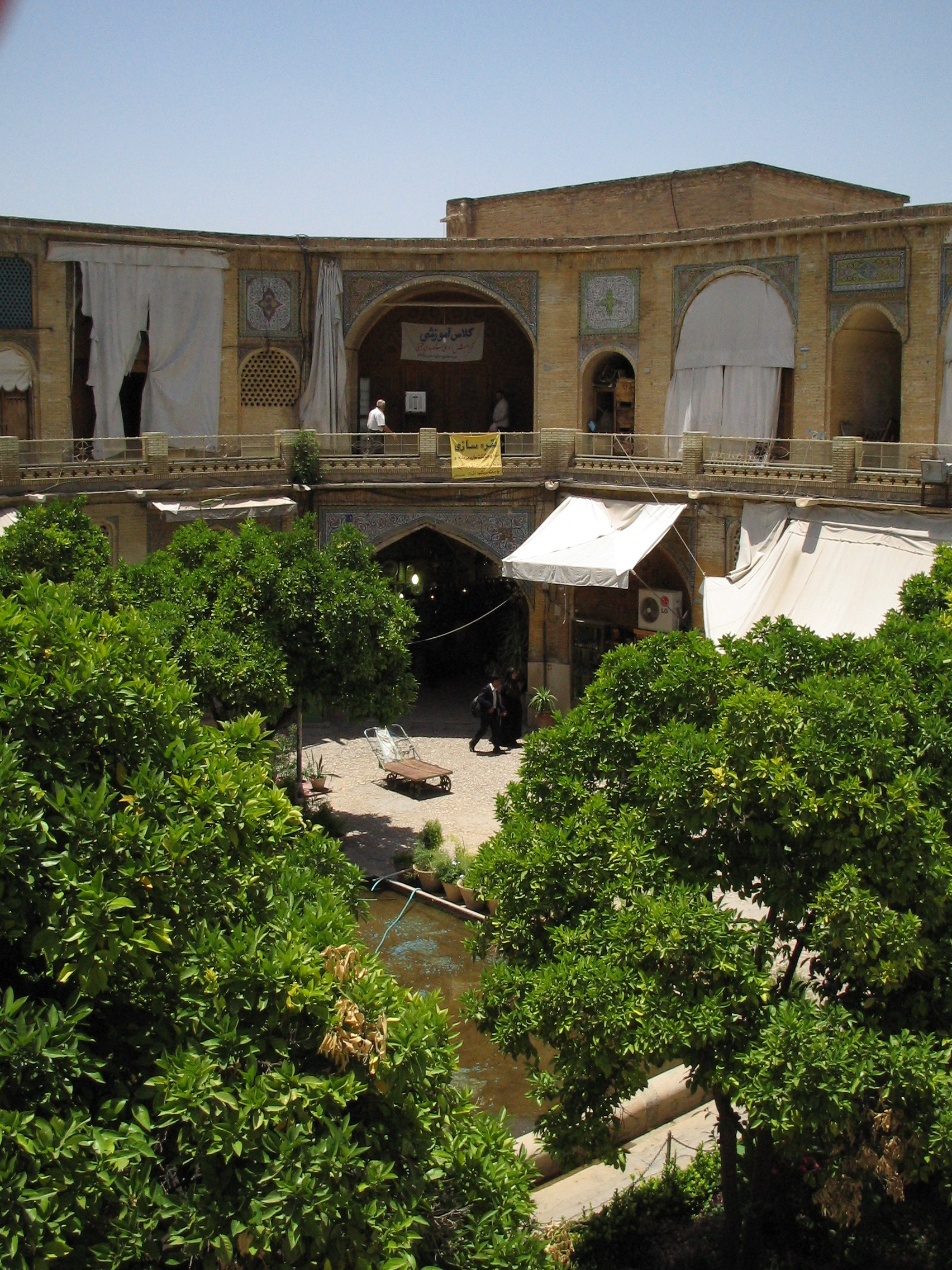 Khan of the Vakil Bazaar, Shiraz, Iran.